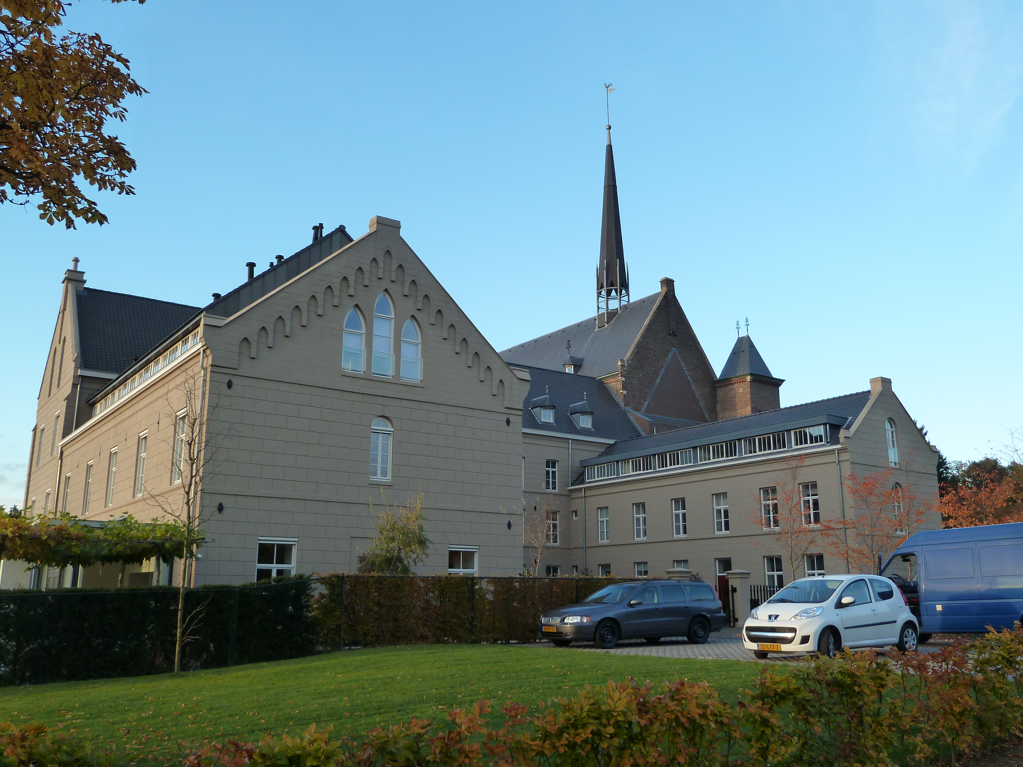 Kloosterweg 58, Bunde, Limburg, the Netherlands